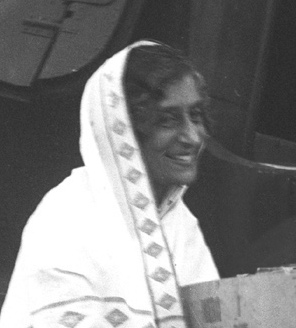 Ninety-three cases of penicillin, a gift from the Canadian Red Cross to India arrived at New Delhi in a special plane from Canada on October 17, 1947. Presenting the penicillin to Rajkumari Amrit Kaur, the then Health Minister in the Government of India at the Palam aerodrome. Dr. Jivraj Mehta, Director General of Health Services appears on the left and standing on the right is Sardar Balwant Singh Puri of the Indian Red Cross.